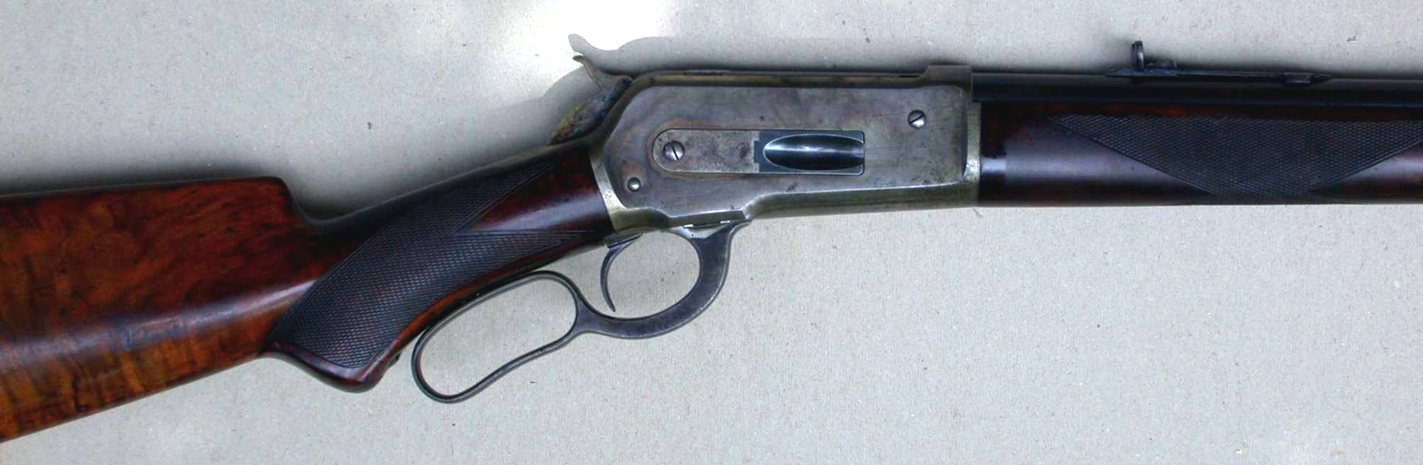 Winchester 1886 Deluxe Receiver